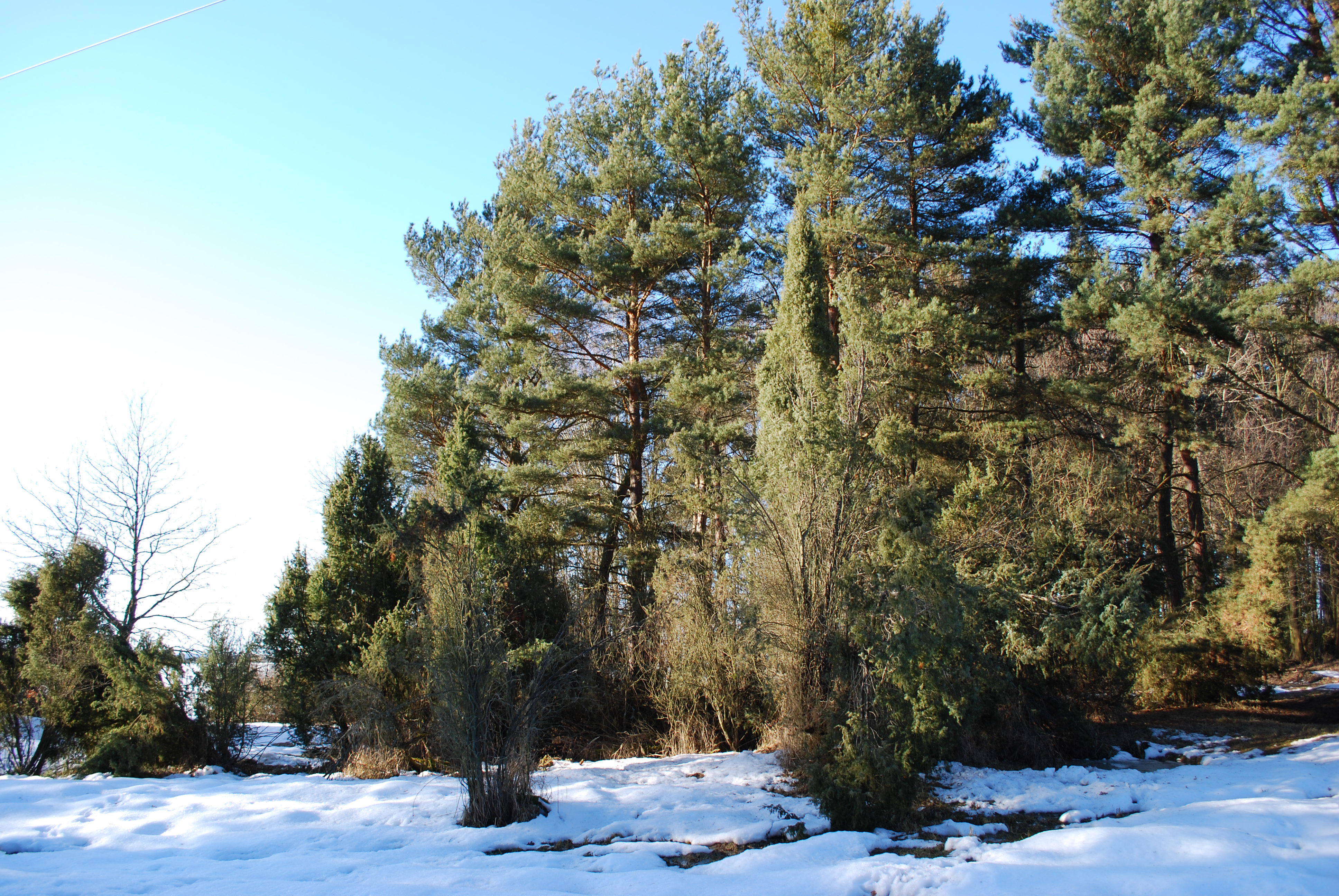 Natural monument called "Černýšovické jalovce" near Černýšovice village in n Tábor District, Czech Republic This photograph was taken within the scope of the 'Czech Municipalities Photographs' grant. - OpenStreetMap(Info)